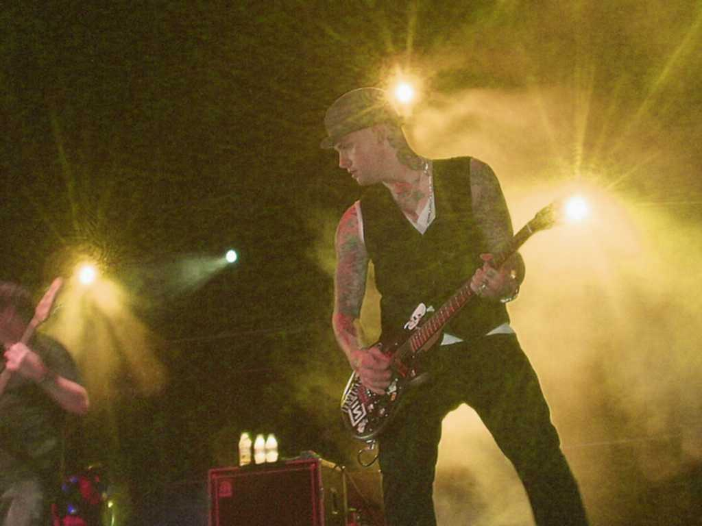 Benji Madden live